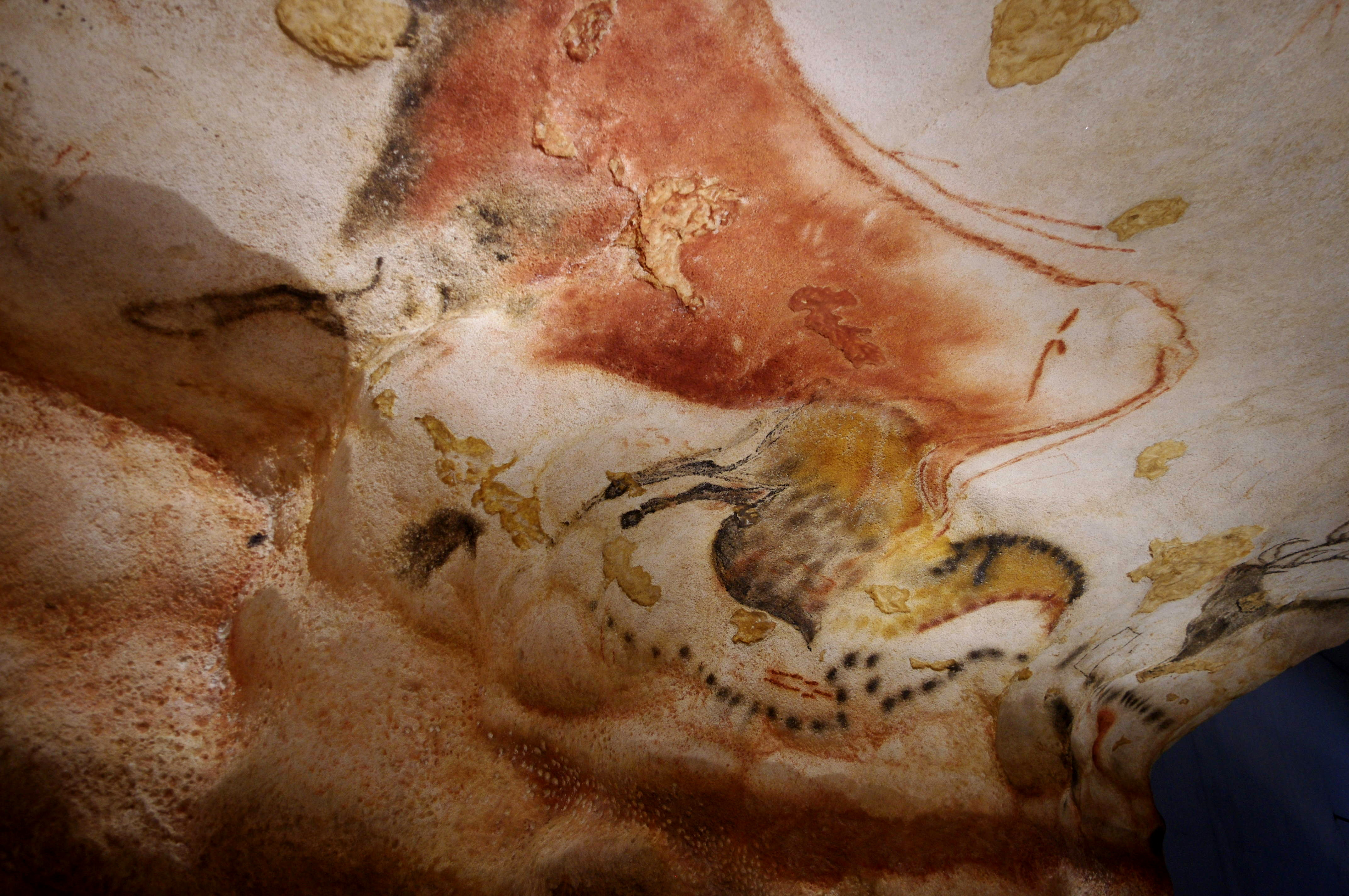 Lascaux 4, Montignac, Dordogne, France. Pictures takes in the part called atelier.